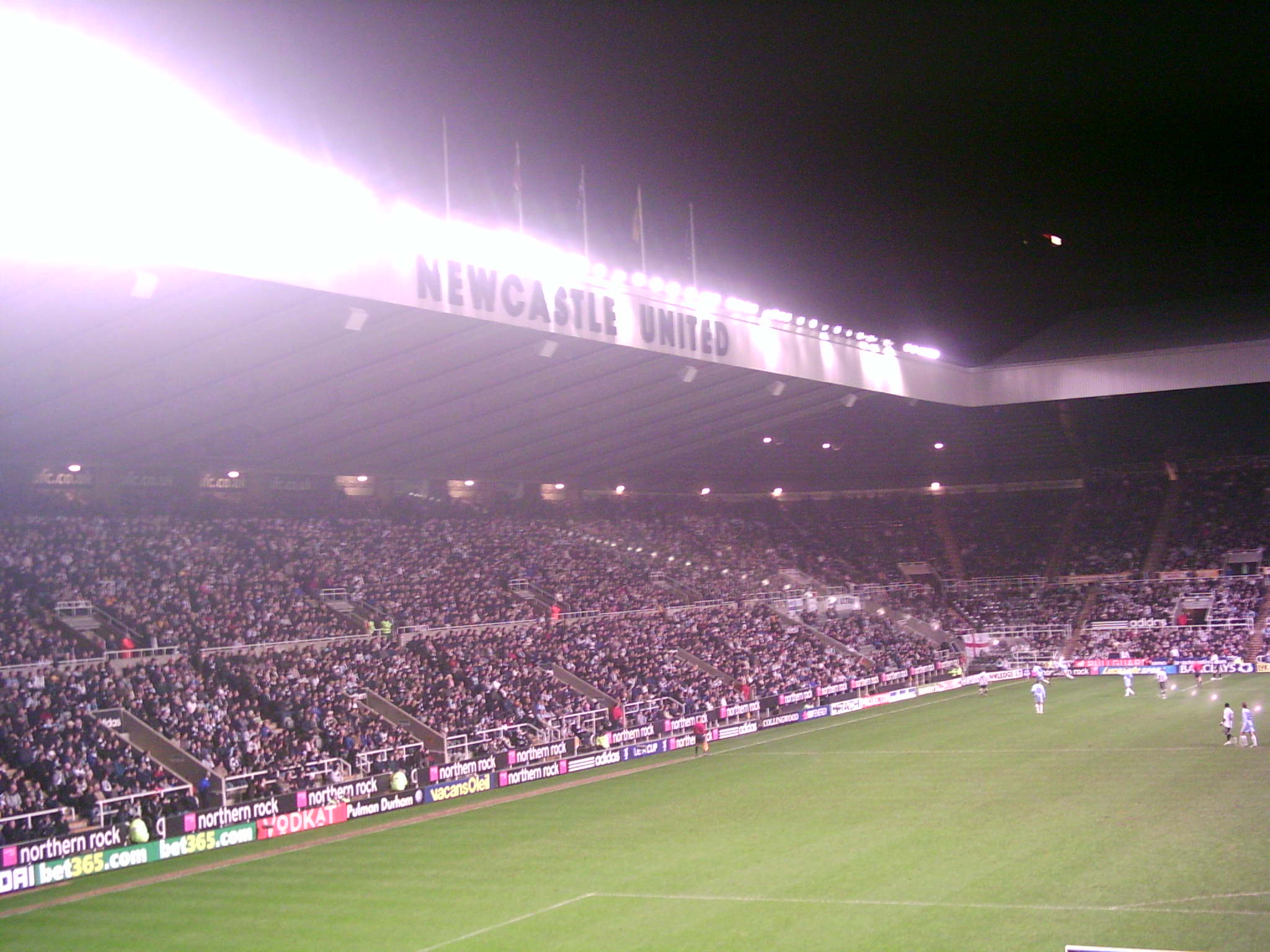 Newcastle United v Zulte Waragem, St James' Park